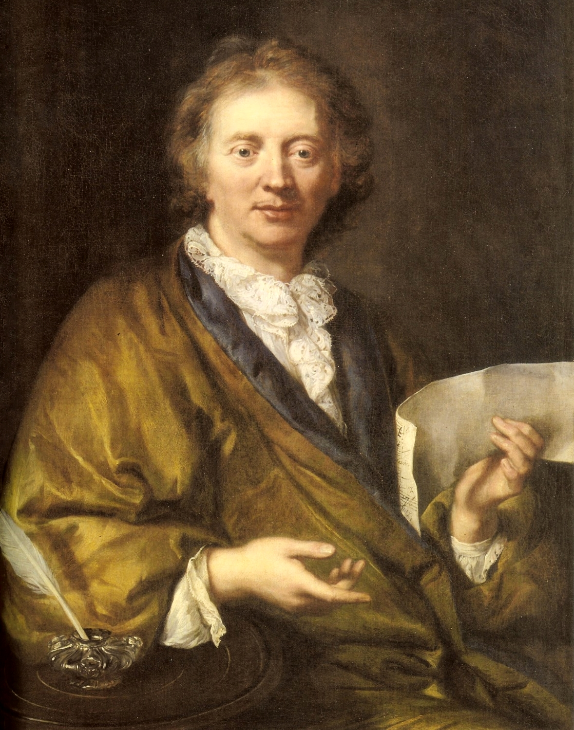 Presumed portrait François Couperin (1668-1733), composer